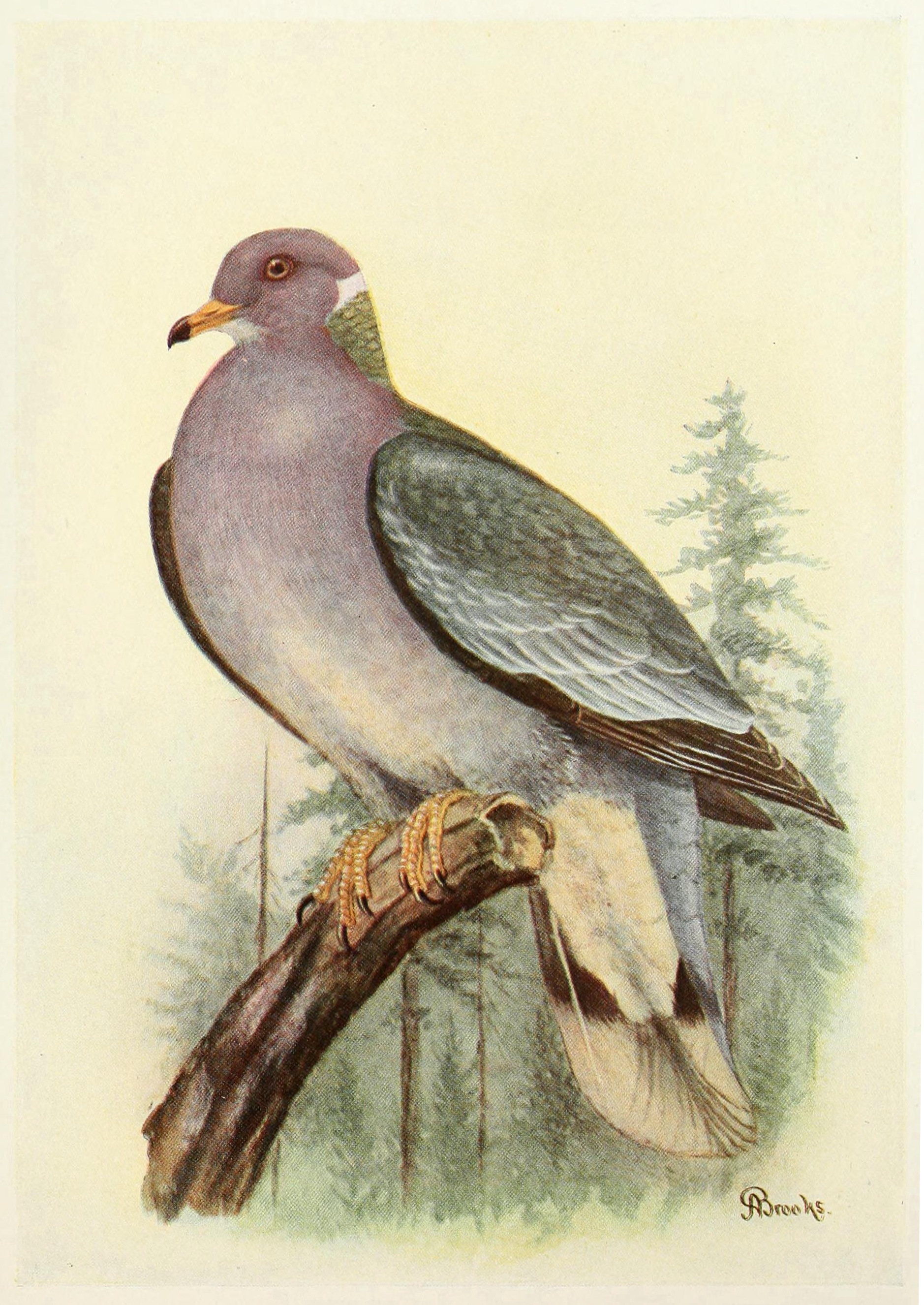 Zoological illustration from a volume of articles, The Passenger Pigeon, 1907 (Mershon, editor). The caption reads: "BAND-TAILED PIGEON (Columba fasciata) Often mistaken for Passenger Pigeon"